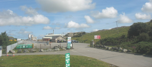 Hanson's Aggregate Plant at Caer-glaw Quarry, Gwalchmai The Hanson Aggregate owned Caer-glaw Quarry, itself mothballed, is the site of a bottle crushing plant. The crushed glass is used as an aggregate substitute in the production of asphalt. The plant handles some 6000 tonnes of local authority collected bottles per annum and the asphalt produced contains 10% glass.